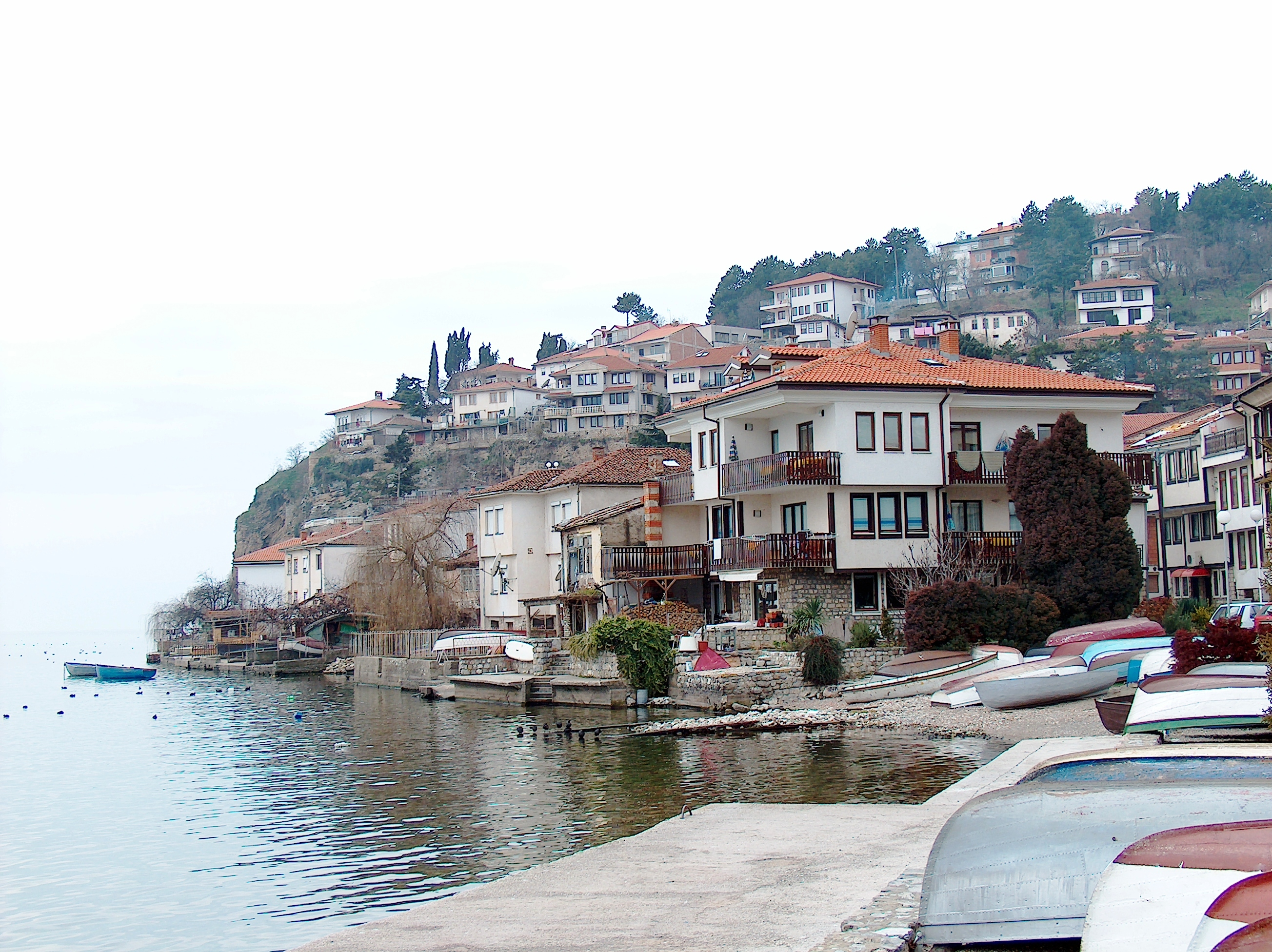 Ohrid Old Town, Republic of Macedonia